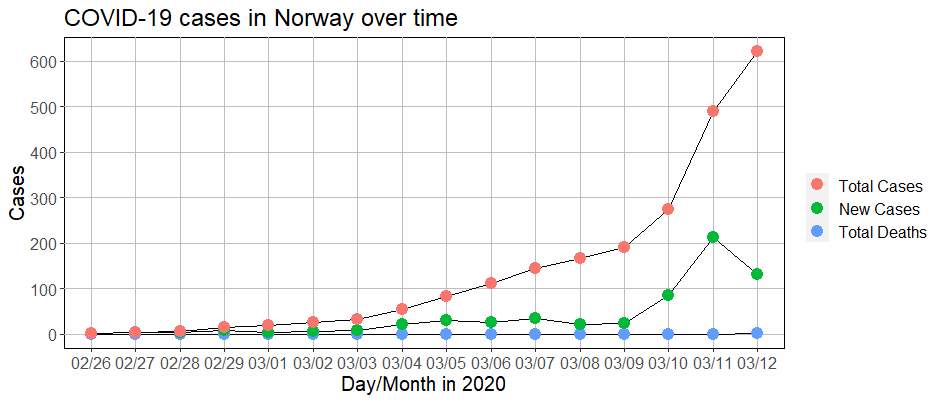 COVID-19 cases in Norway over time, from 02/26 until 03/10